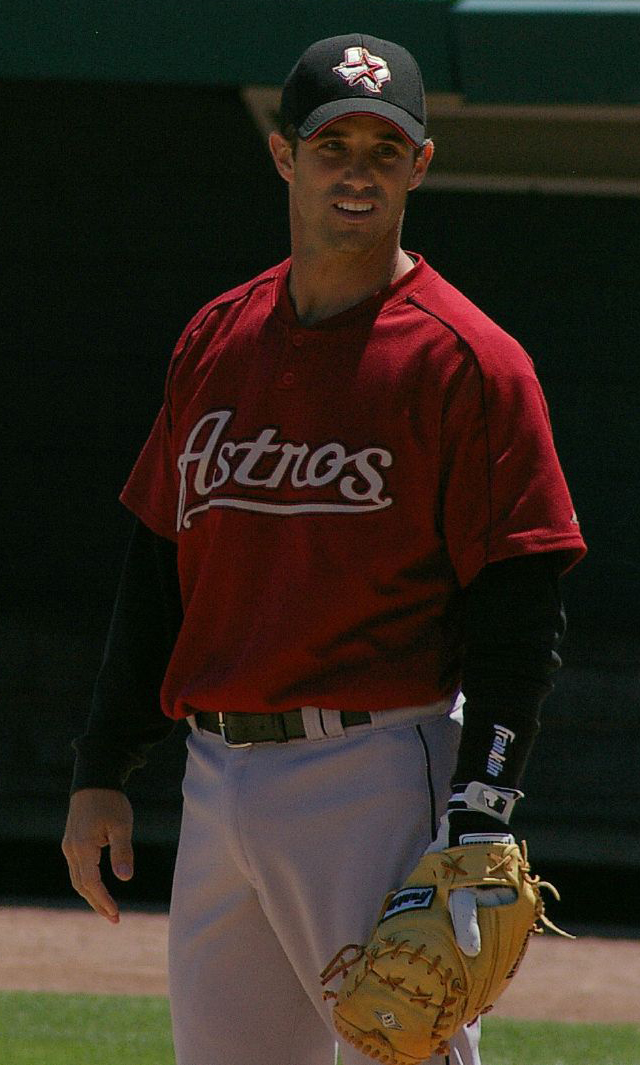 Description Brad Ausmus Date13:36, 6 July 2009 (UTC)SourceTaken on March 27, 2006 Commons upload by UCinternational 05:18, 22 May 2008 (UTC)AuthorUser AlphaTangoBravo / Adam Baker on Flickr Crop by KV5 (Talk • Phils)Permission (Reusing this file) CC-2.0 Other versions File:6-4-3 Brad Ausmus.jpg 13:36, 6 July 2009 . . Killervogel5 . . 640×1,065 (387 KB) Brad Ausmus